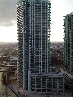 View of Mint at Riverfront from outside